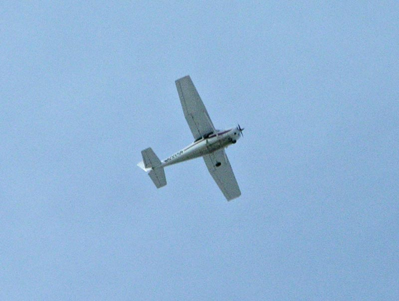 A private airplane from Westosha airport in Wilmot, Wisconsin flies over Wilmot Mountain Ski resort. Most weekends small aircraft are continuously overhead. Shot from the top of the hill (Wilmot Mountain.)